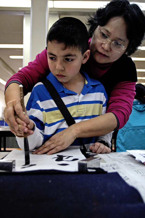 A young boy is guided in haiga, haiku painting, during the Japanese Culture Festival held at Matthew C. Perry Elementary School here Sunday. Haiga was developed in the 17th century and was used to decorate scrolls, albums, screens and fans.